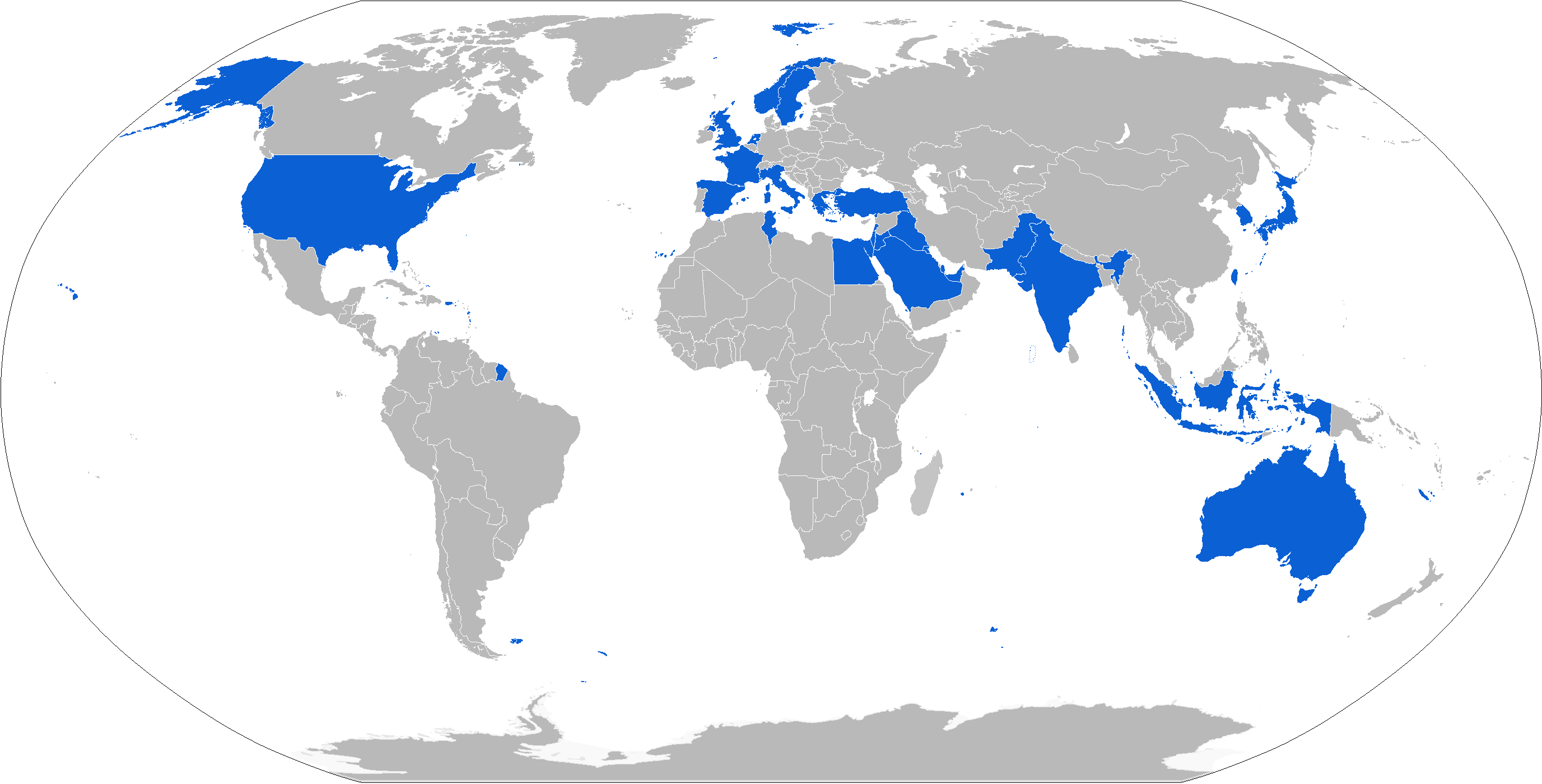 Map with Hellfire operators in blue